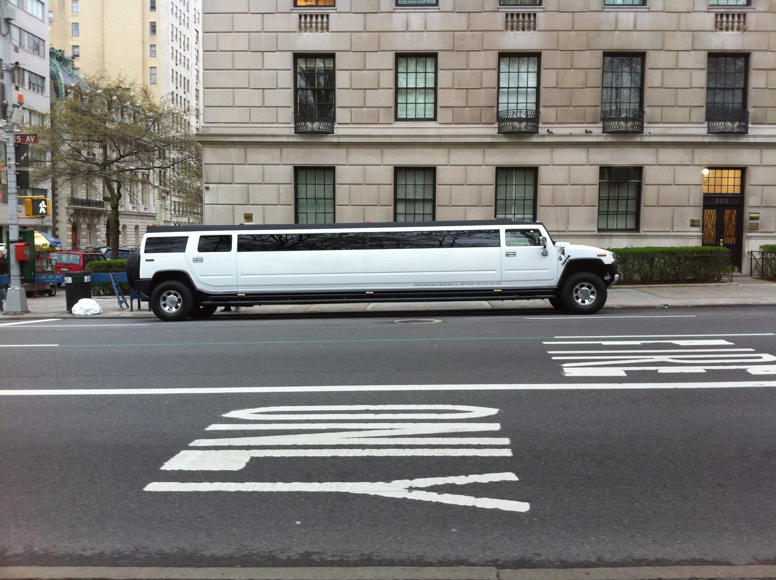 Hummer Limousine in New York